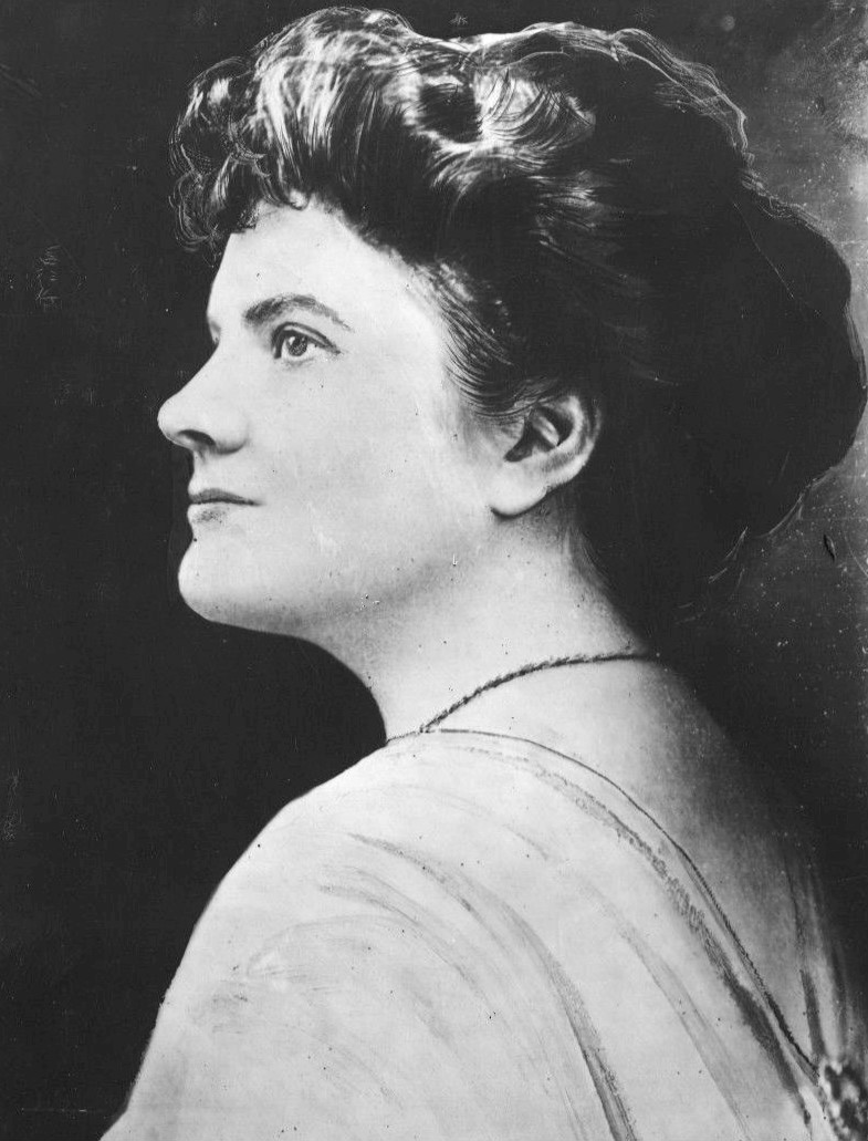 Photo of Mrs. Frederick Warren Pearl (Amy) who was a passenger on the RMS Lusitania.